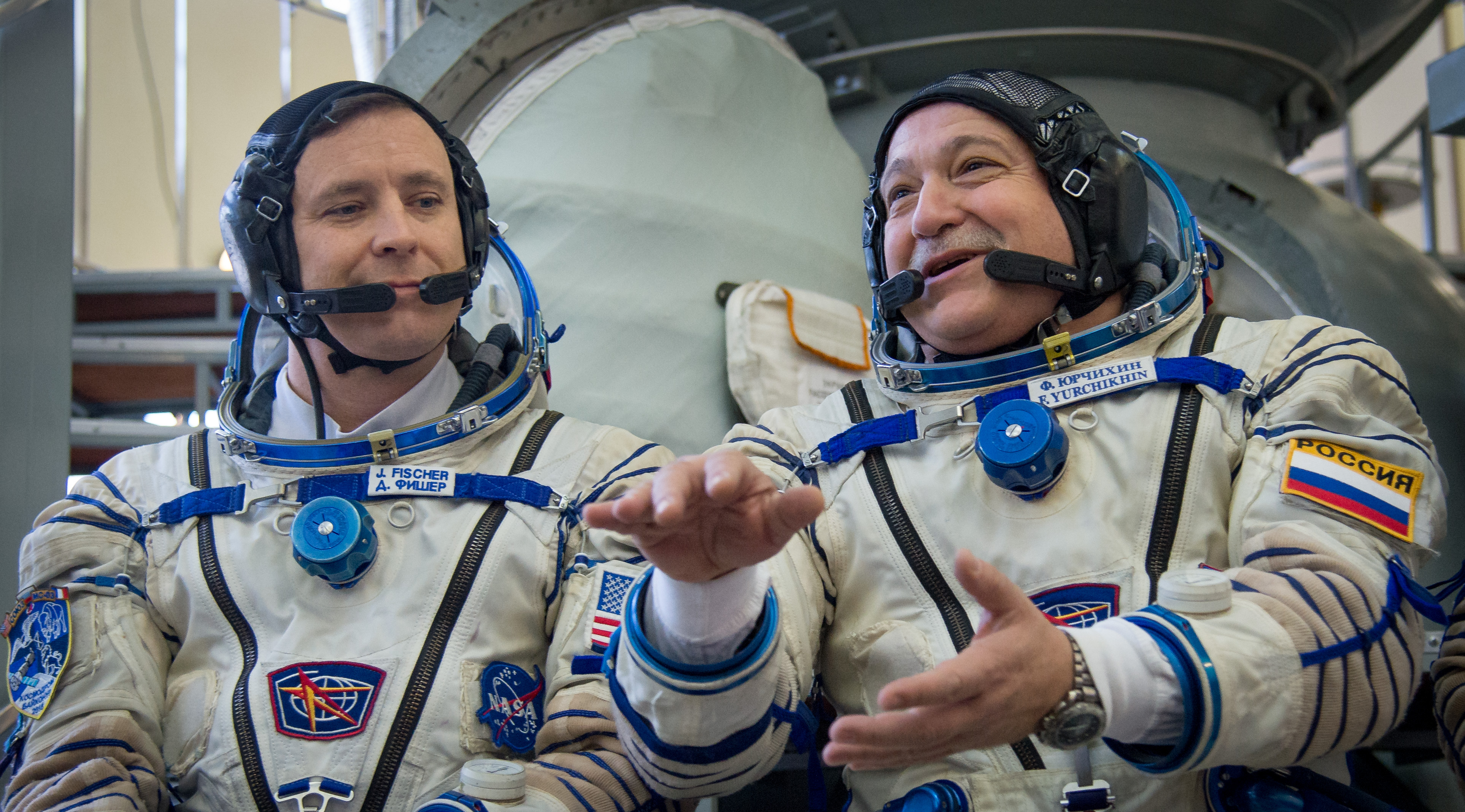 Expedition 50 backup crew members NASA astronaut Jack Fisher, left, and Russian cosmonaut Fyodor Yurchikhin of Roscosmos, answer questions from the press ahead of their Soyuz qualification exams with ESA astronaut Paolo Nespoli, Monday, Oct. 24, 2016, at the Gagarin Cosmonaut Training Center (GCTC) in Star City, Russia.